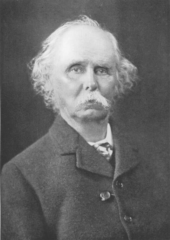 British economist Alfred Marshall (1842 - 1924) pictured in 1921.